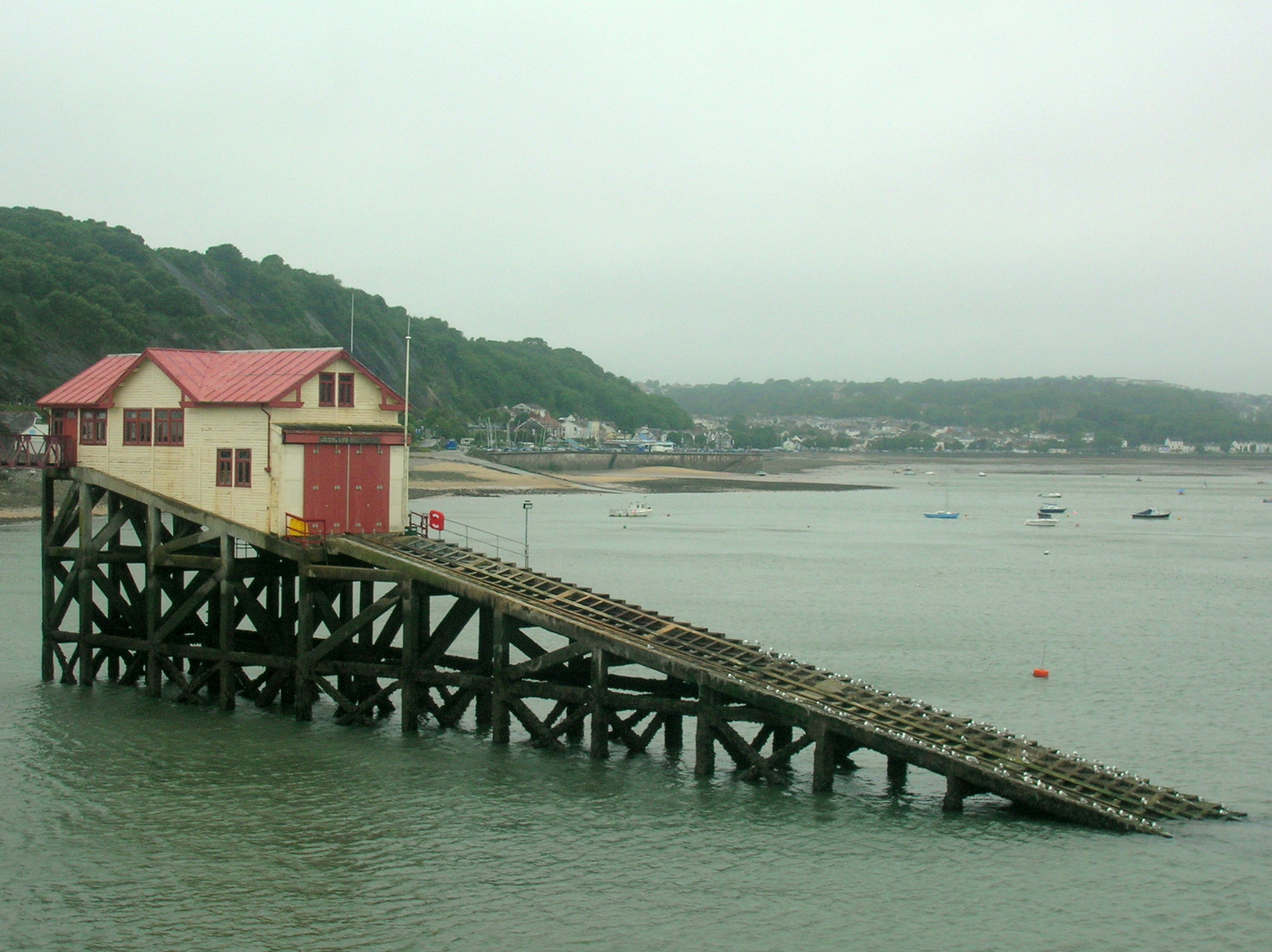 Lifeboat slipway, Mumbles, Wales, UK